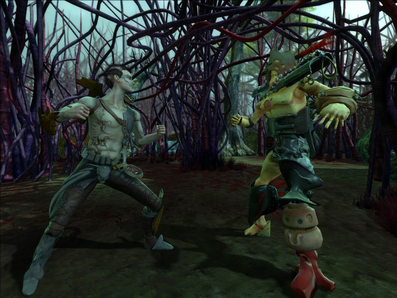 Zeno Clash screenshot. Released in 2009, the game was developed by ACE Team and is powered by Valve Software's Source engine.